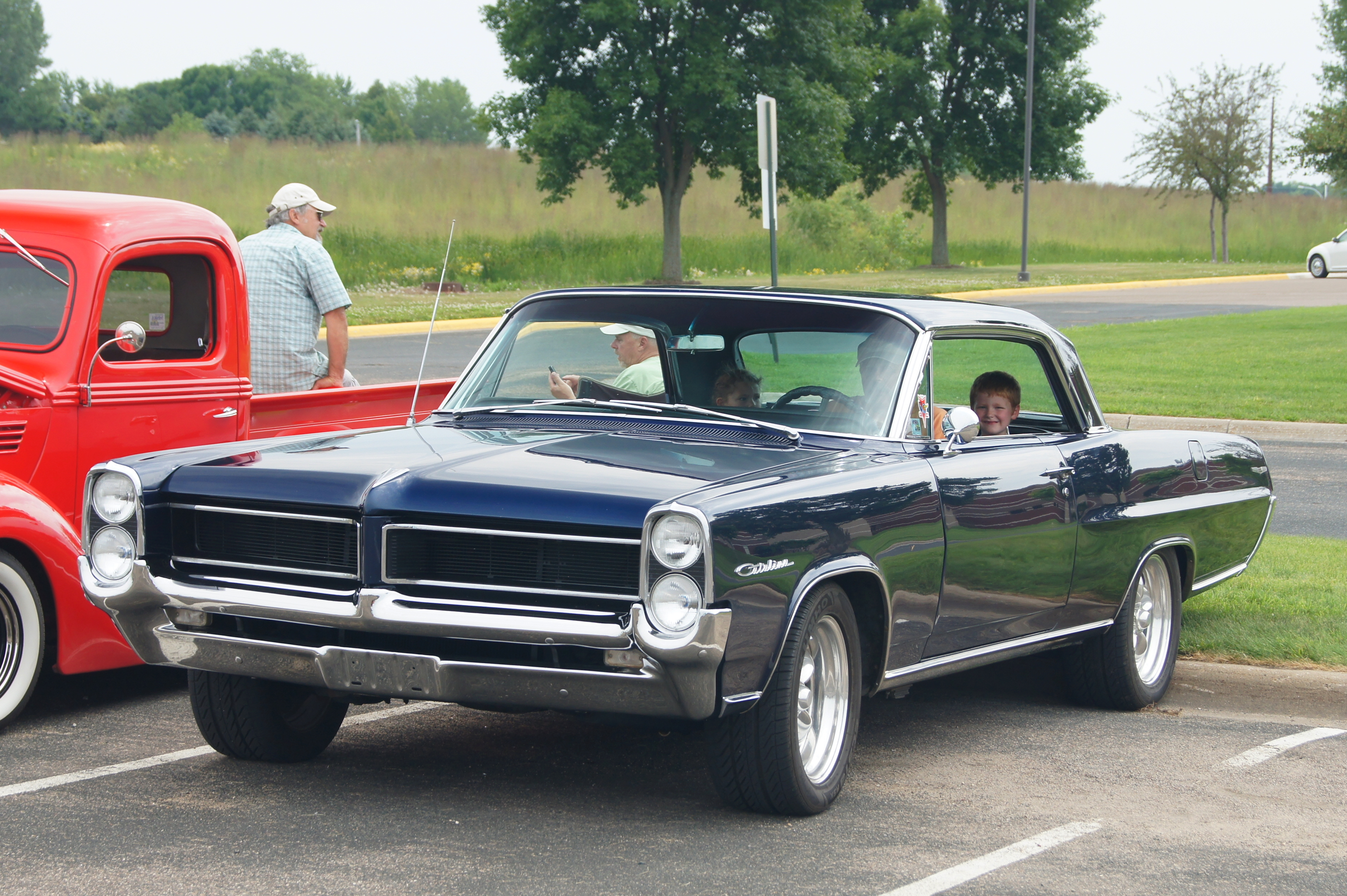 28th Annual New London to New Brighton Antique Car Run Lunch Stop Buffalo High School Buffalo Minnesota Mile 78.8 More Car Pictures